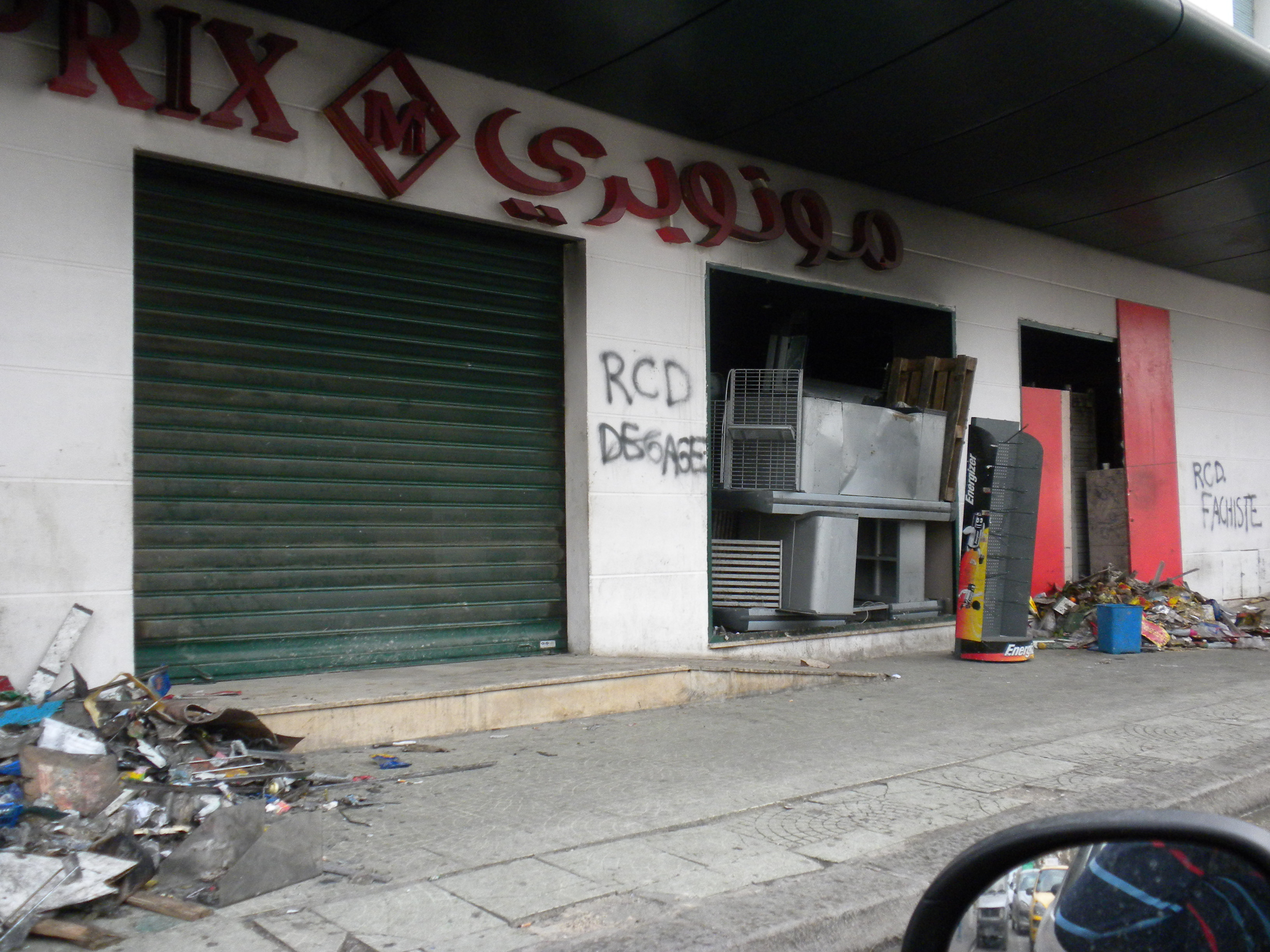 Monoprix shop looted during the 2011 Tunisian revolution